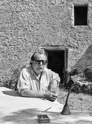 the architect George Candilis